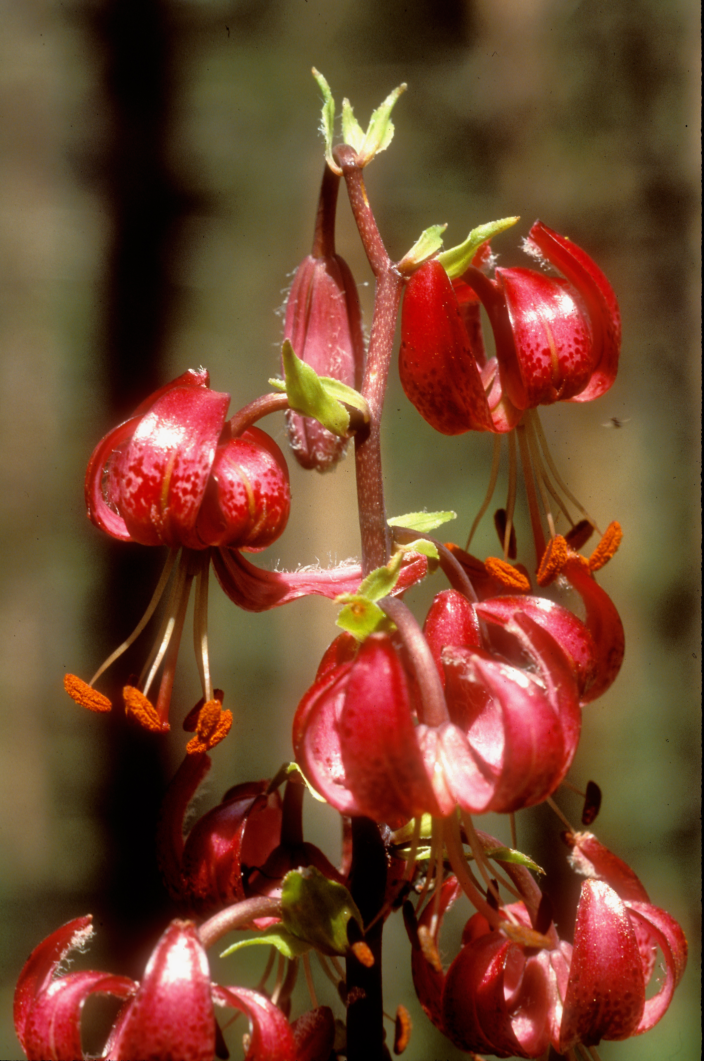 Lilium martagon var. cattaniae in habitat at Rhodope Mountains, Greece